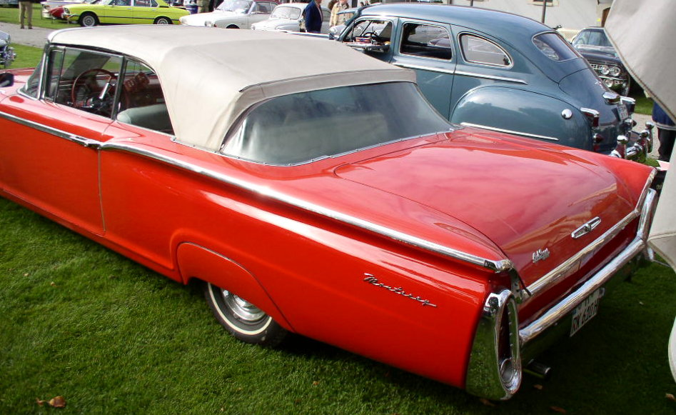 1960 Mercury Monterey